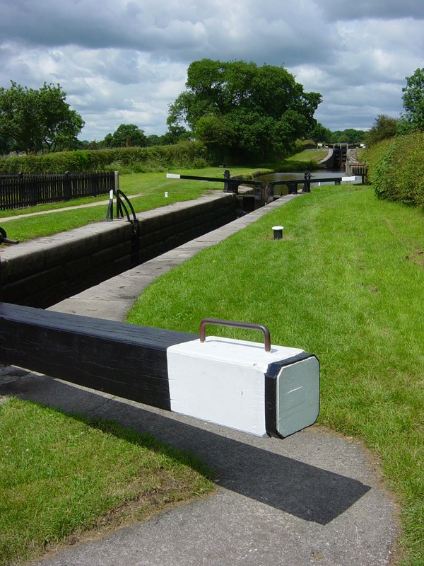 Canal lock on the Macclesfield canal — photo by User:Matt Crypto. This work has been released into the public domain by its author, Matt Crypto. This applies worldwide. In some countries this may not be legally possible; if so: Matt Crypto grants anyone the right to use this work for any purpose, without any conditions, unless such conditions are required by law.